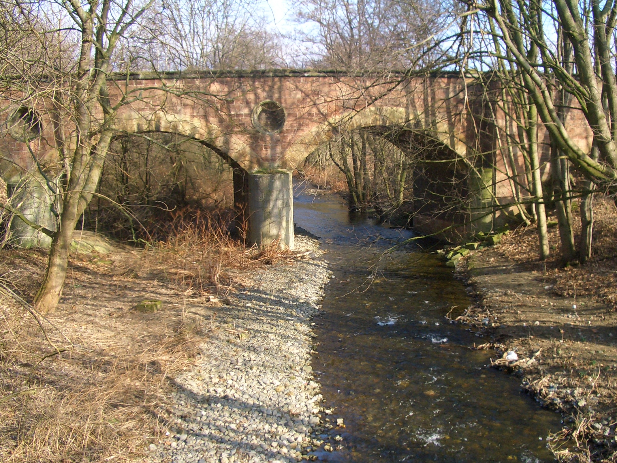 Radau in Vienenburg with old railway overpass